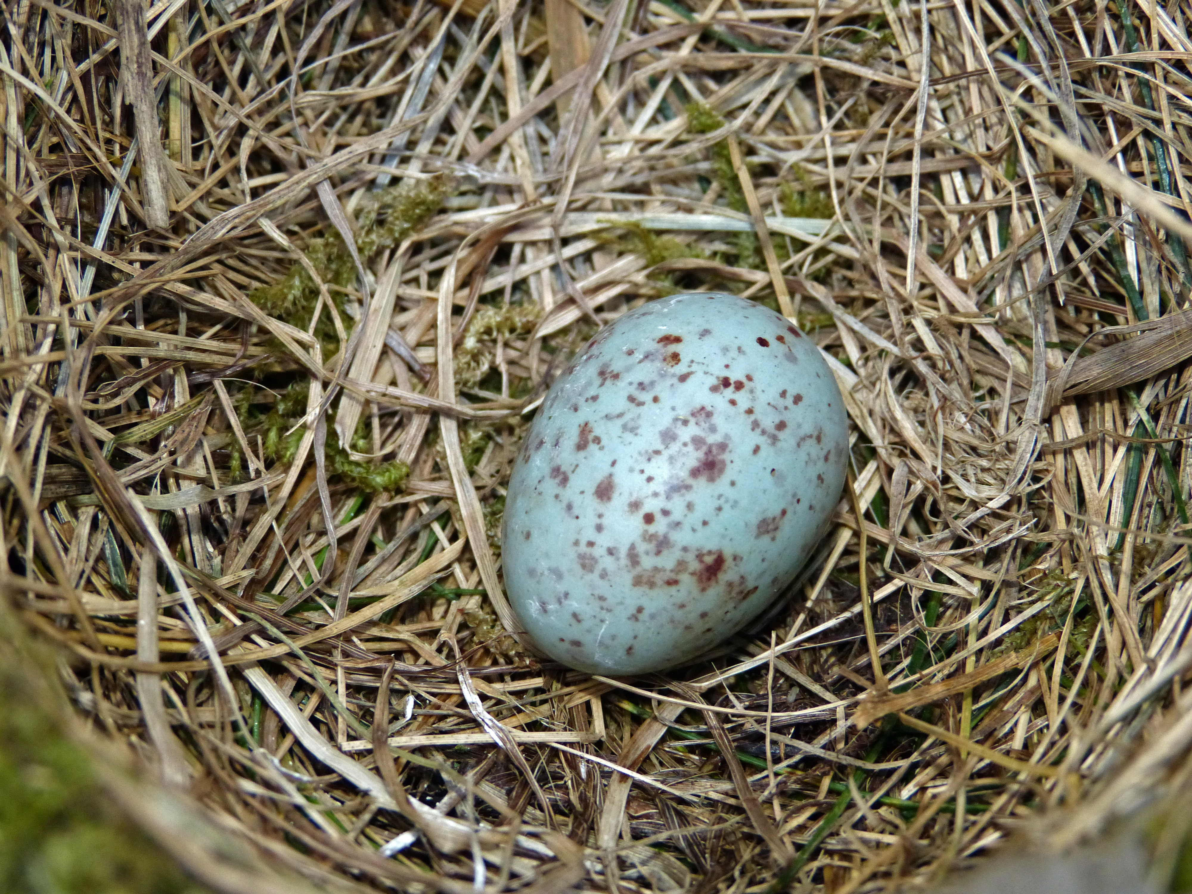 Latin name Turdus viscivorus Family Chats and thrushes (Turdidae) Overview This is a pale, black-spotted thrush - large, aggressive and powerful. It... Where to see them ... When to see them All year round. Watch for flocks in July and August. What they eat Worms, slugs, insects and berries.